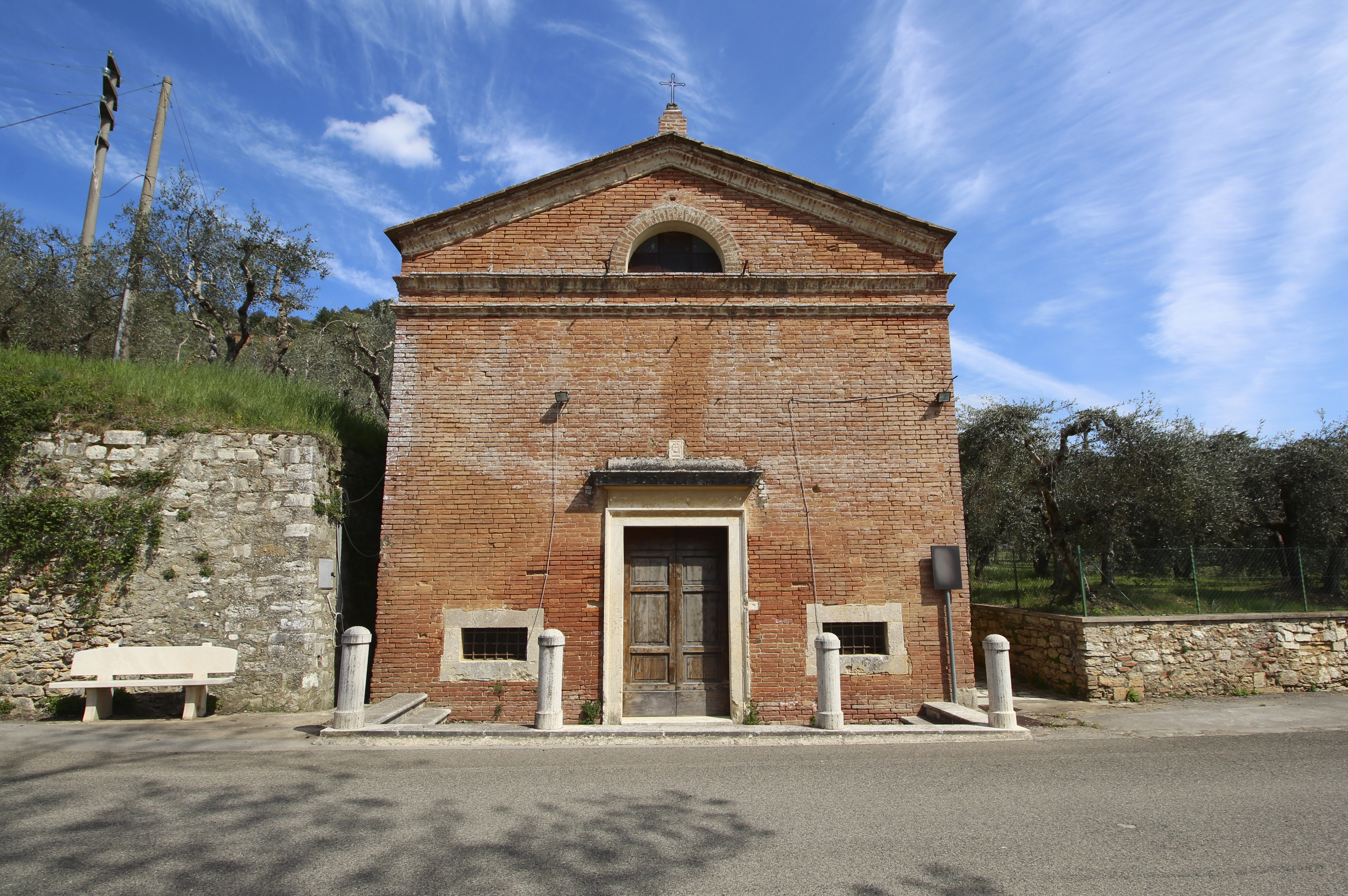 Church Madonna della Piaggia, outside of Serre di Rapolano on the way to San Gimignanello, hamlets of Rapolano Terme, Province of Siena, Tuscany, Italy